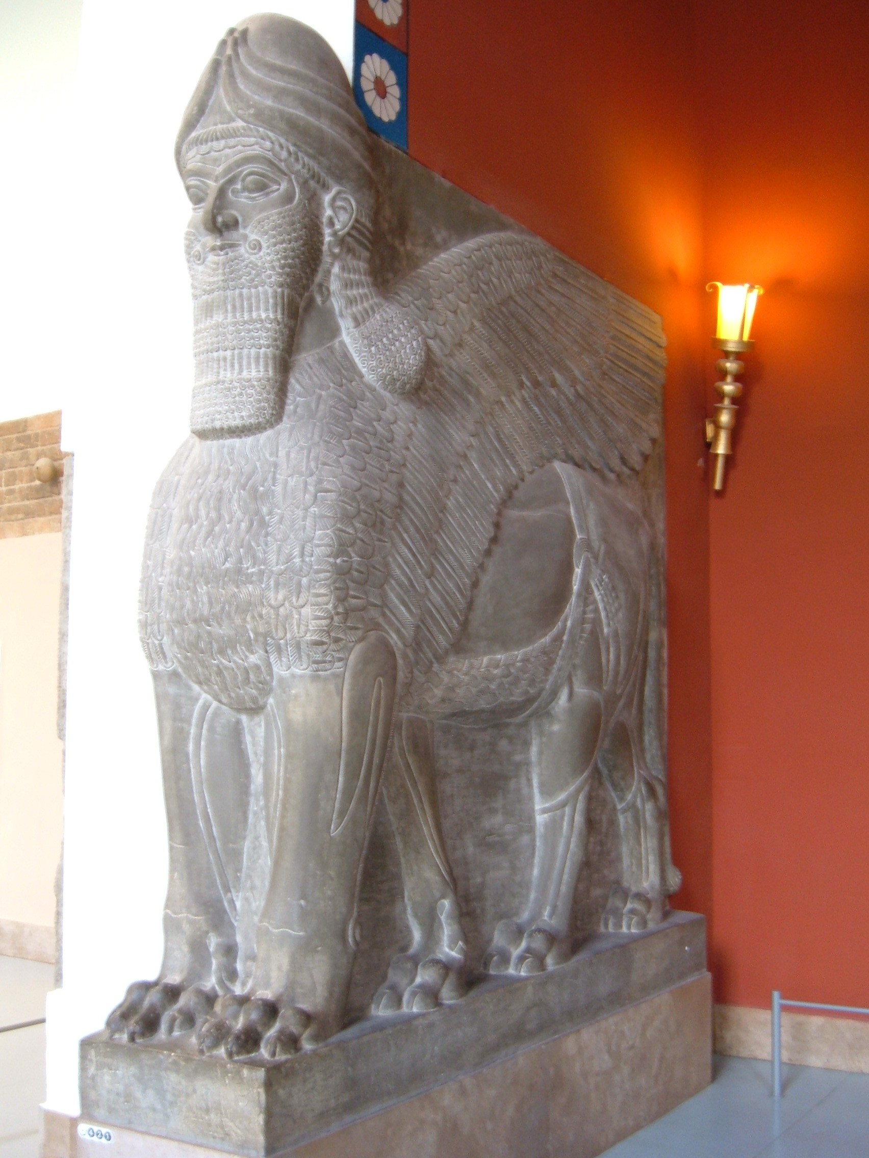 A Shedu on display at the Pergamon Museum in Berlin, Germany.